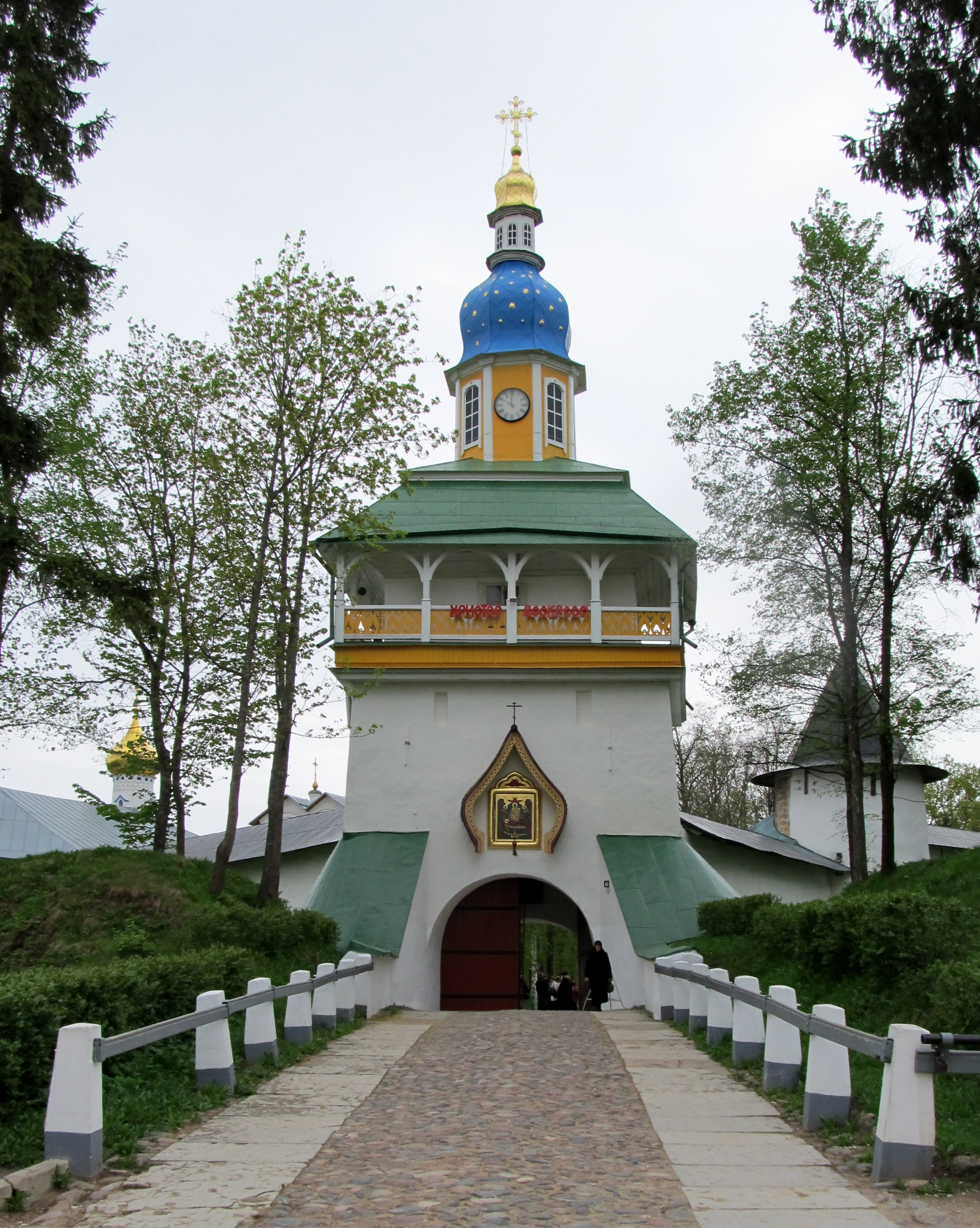 Main gate to Monastery of Pechory